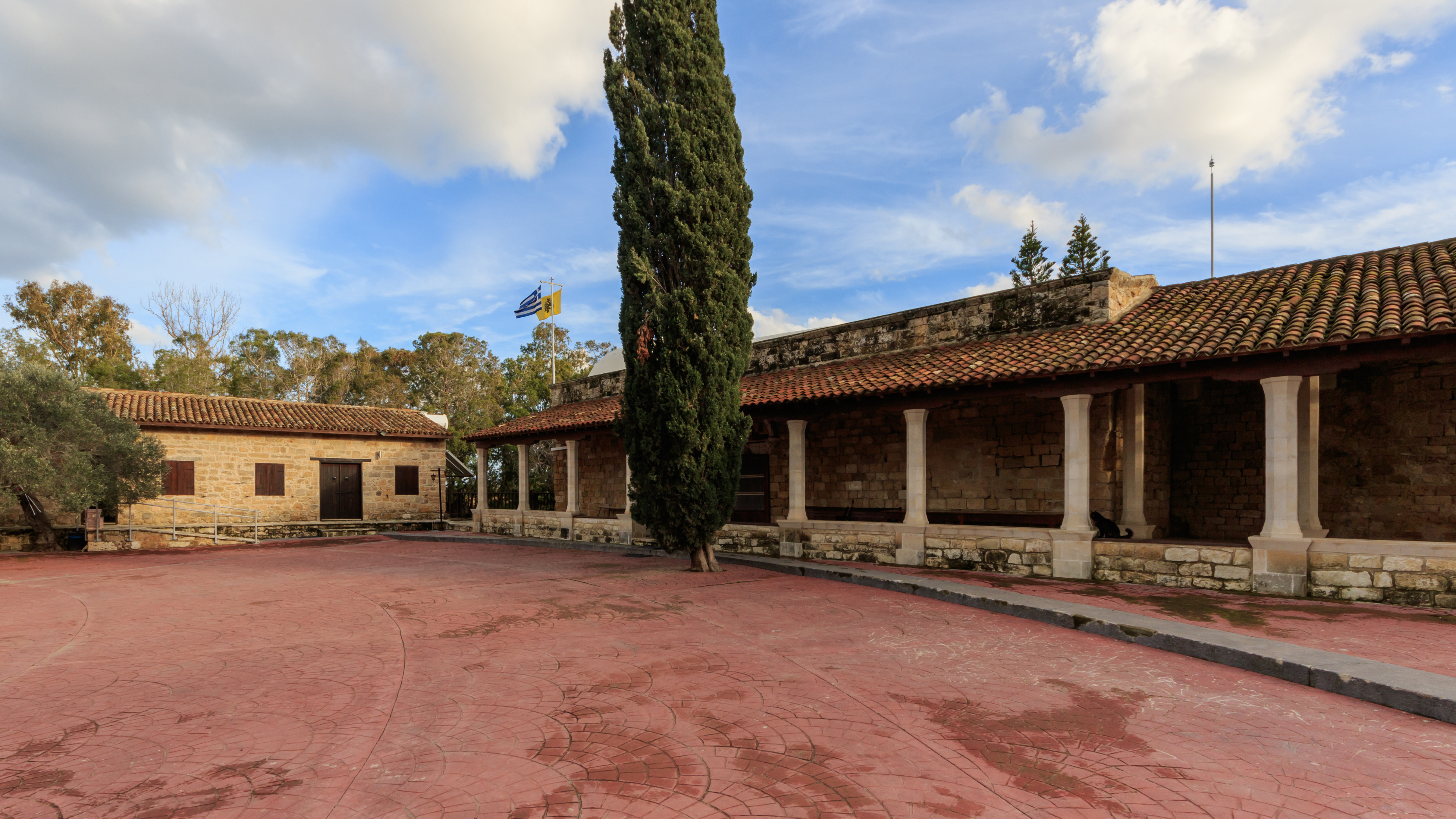 St. Nicholas Monastery of the Cats in Akrotiri near Limassol, Cyprus